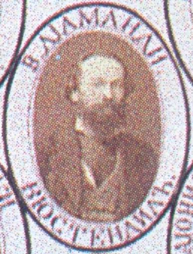 Vasil Diamandiev. Photographs of the members of the Bulgarian Constituent Assembly in Veliko Tarnovo, 1879